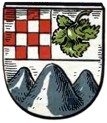 Coat of Arms of Gottesberg (today Boguszów).